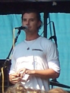 Gavin Rossdale in concert with Institute in New York City, New York, United States